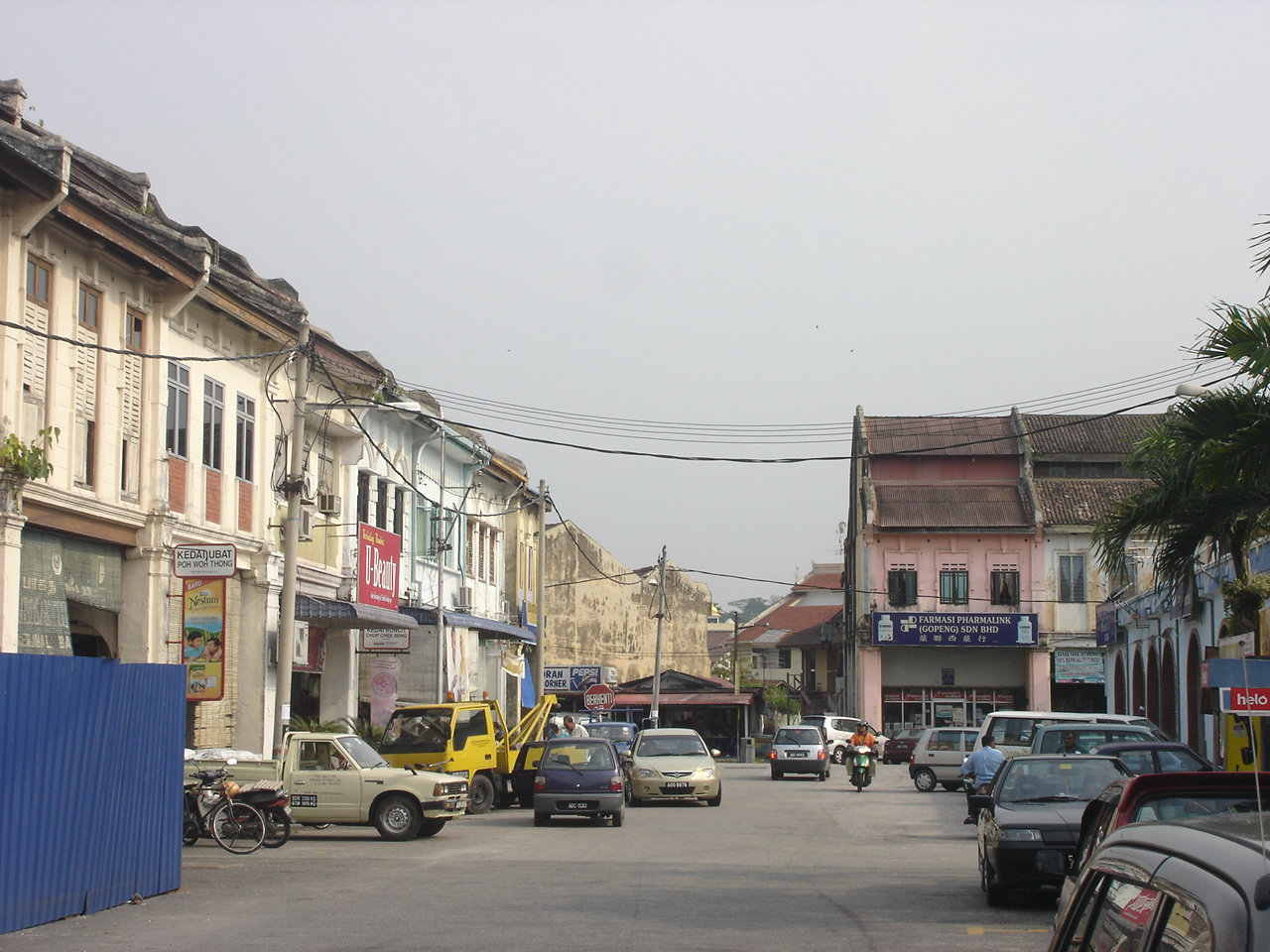 This is the shophouses along Jalan Kampung Rawa towards the town centre and to the right is Medan Purnama (previously the Old Gopeng Wet Market)